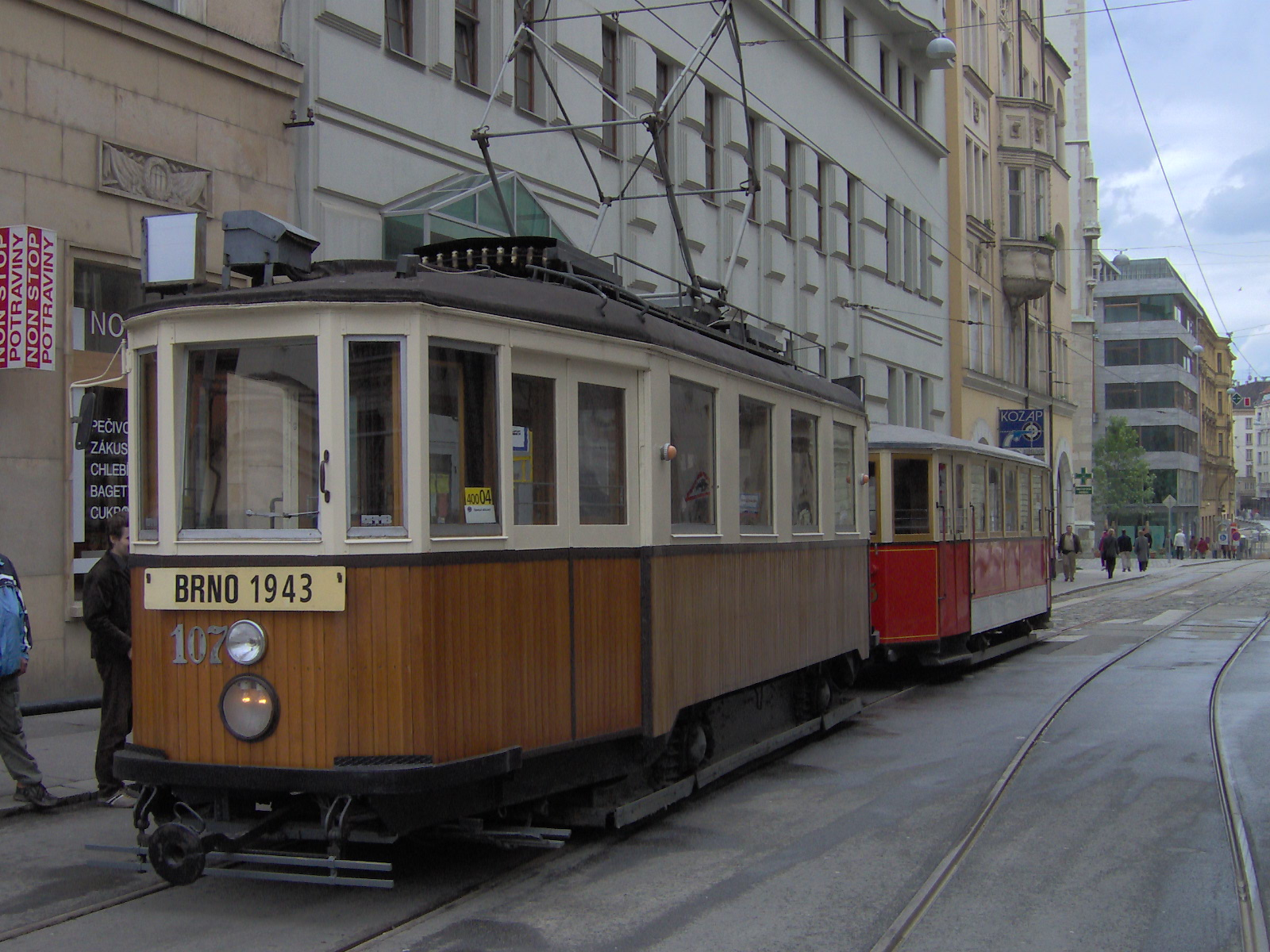 Historical tram nr. 107 with trailer car nr. 215 in Brno